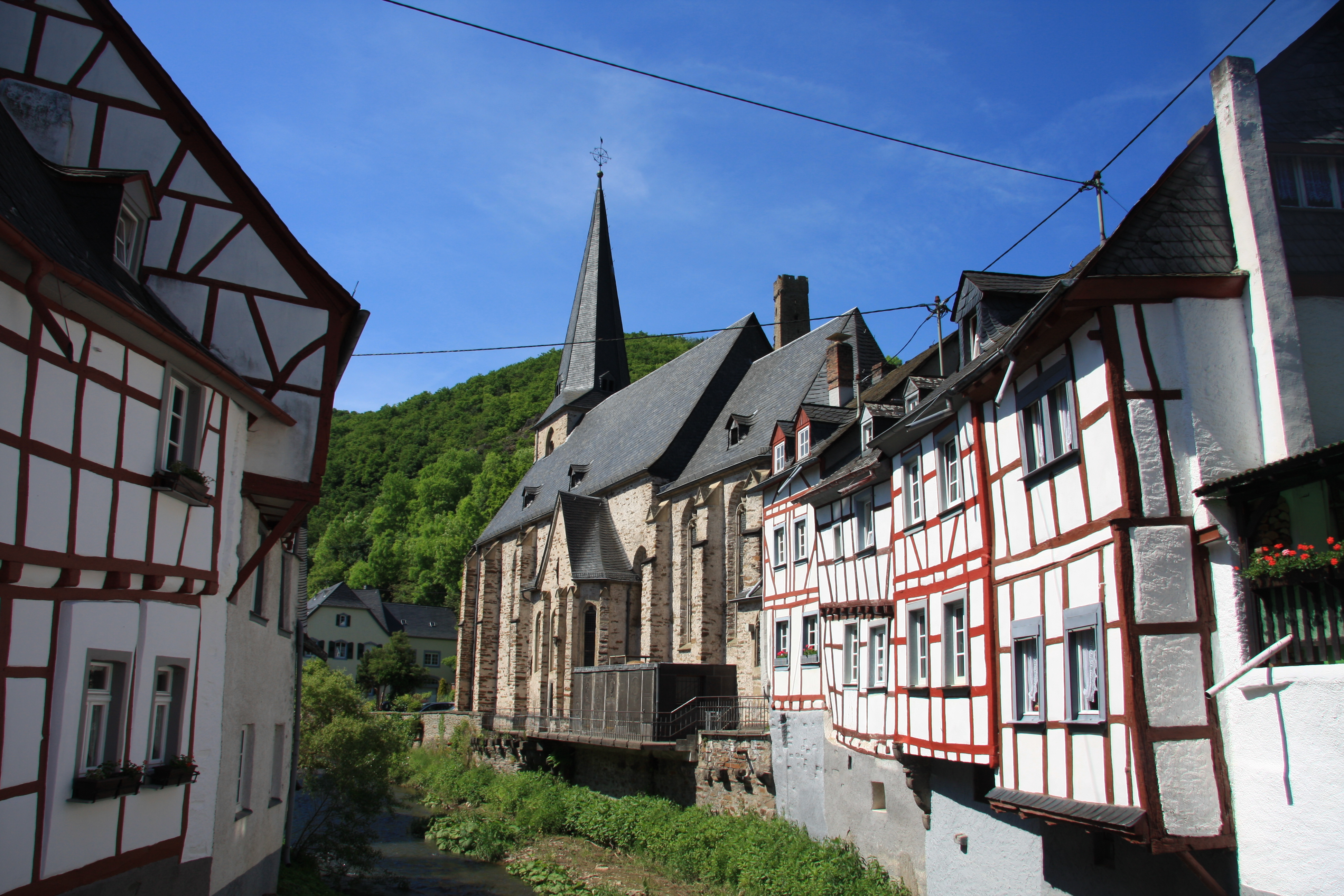 View alon the rivulet Eltzbach to the Church Feast of the Cross in Monreal